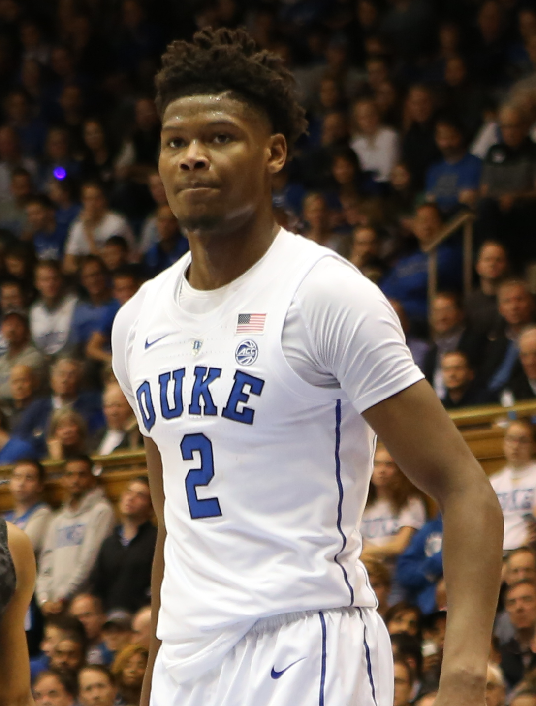 Cam Reddish photo by Keenan Hairston